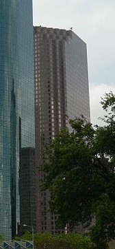 Enterprise Plaza in Houston